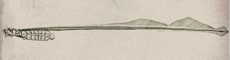 A scheme of lamprey skeleton: modified after a illustration on the book [Romer and Parsons, 1977, The Vertebrate Body. Saunders] pen-and-ink, paper, then photoshop.